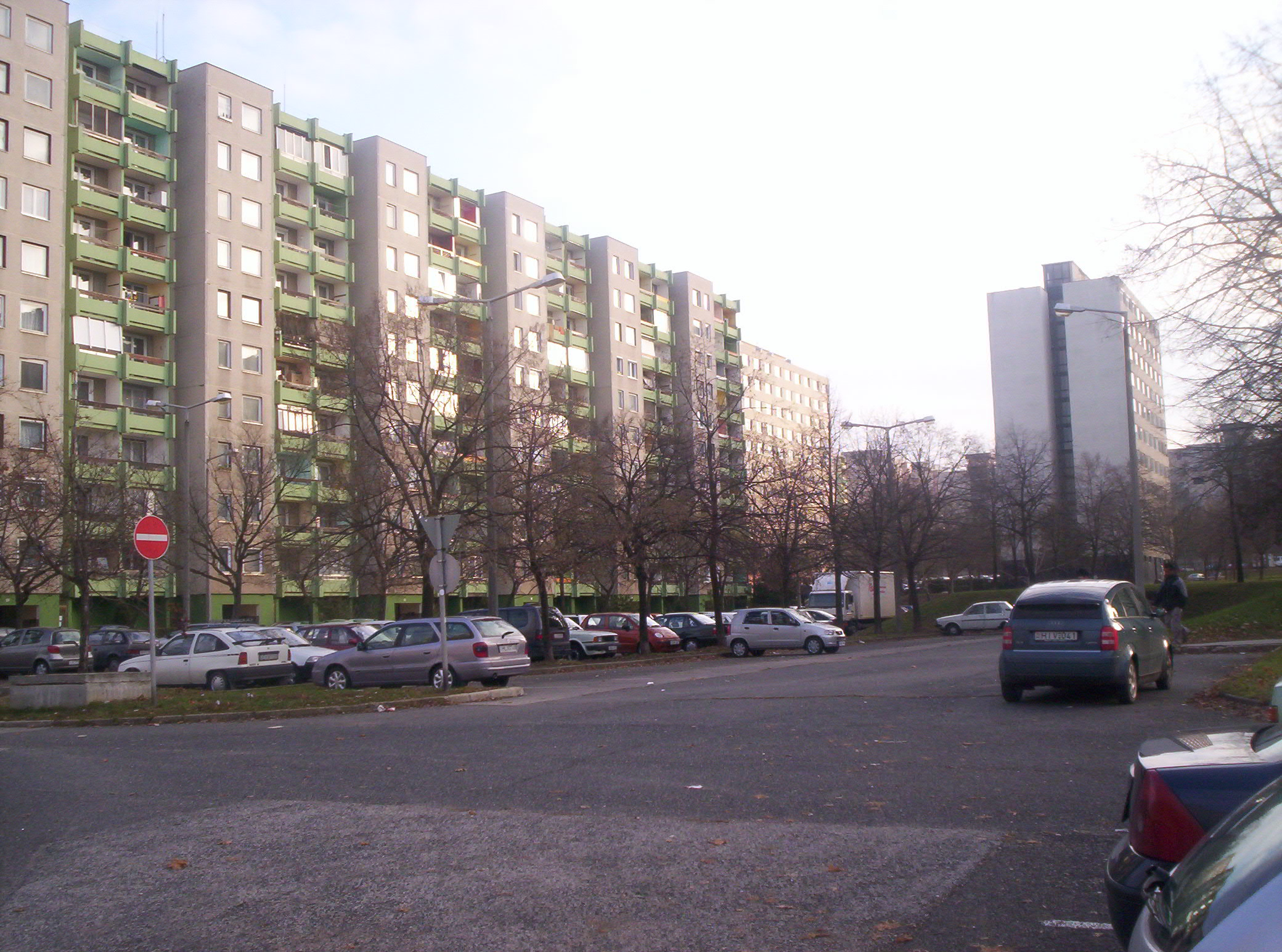 Description: Quarter "Jutasi úti lakótelep" in Veszprém